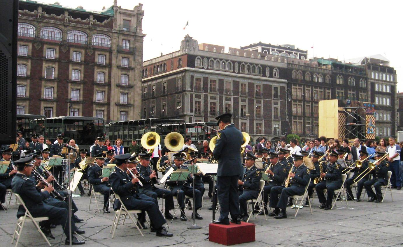 A Mexican Army band plays in the Zocolo, or main square of Mexico City